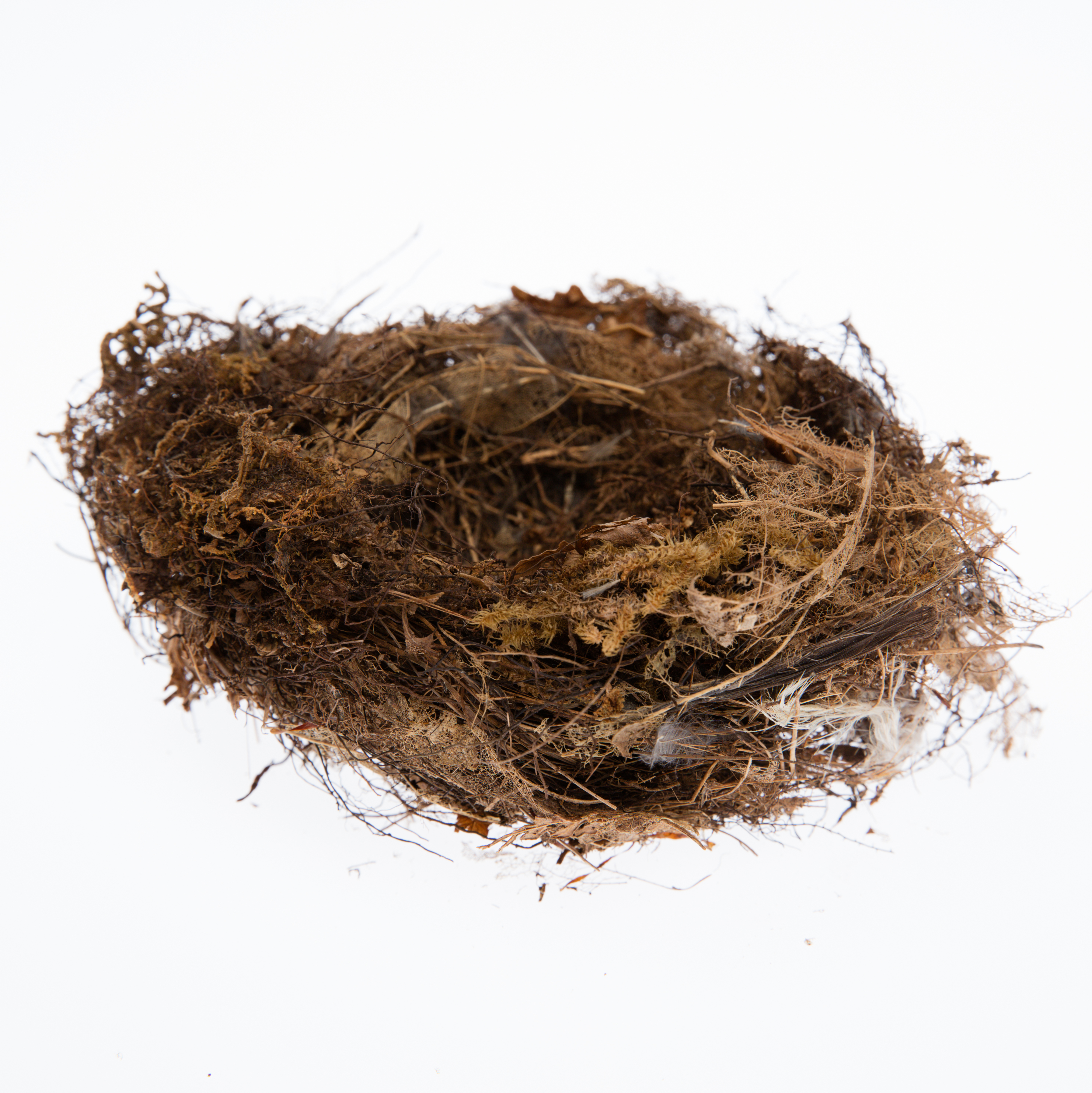 Rifleman (Acanthisitta chloris) nest in the collection of Auckland Museum